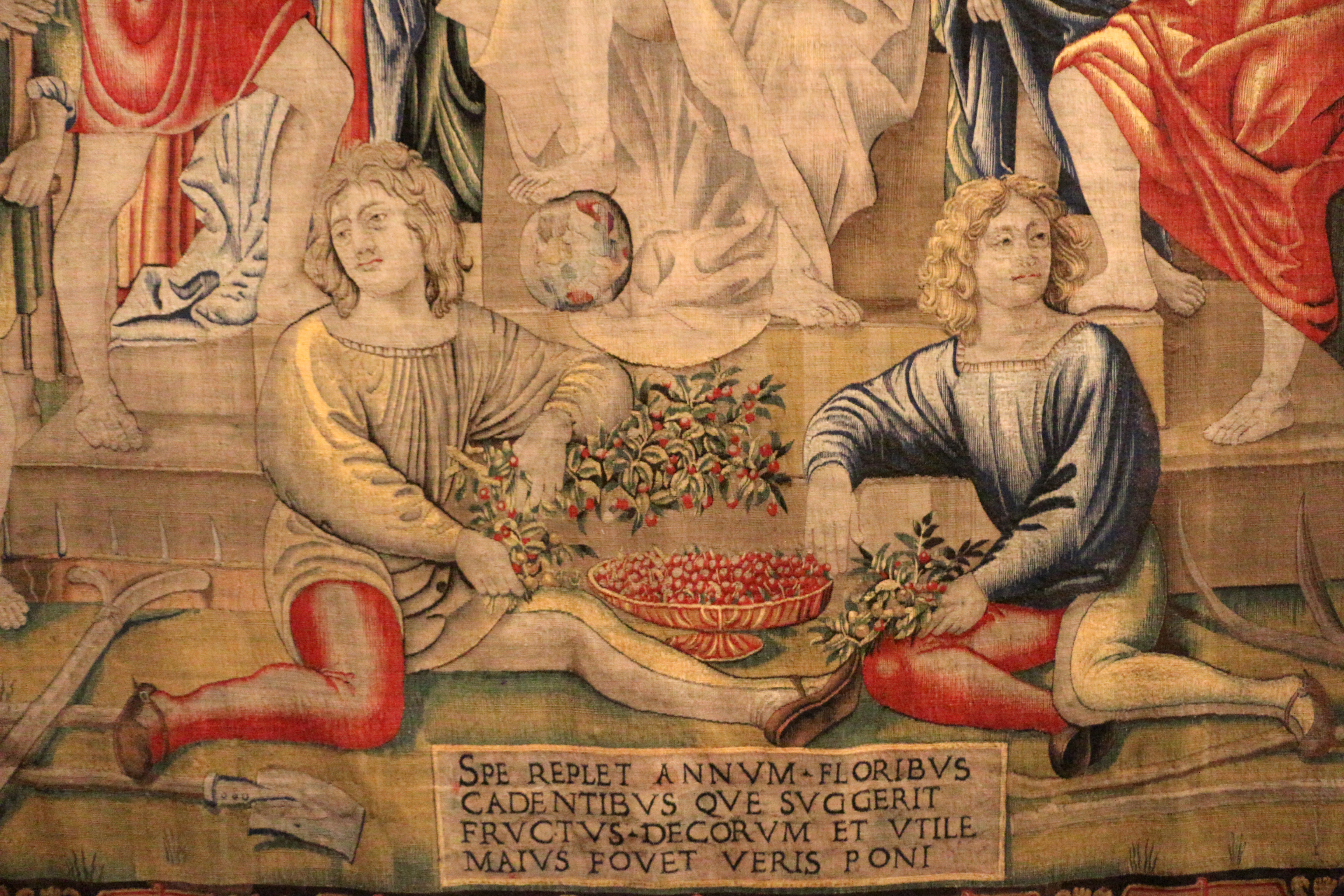 Trivulzio tapestries